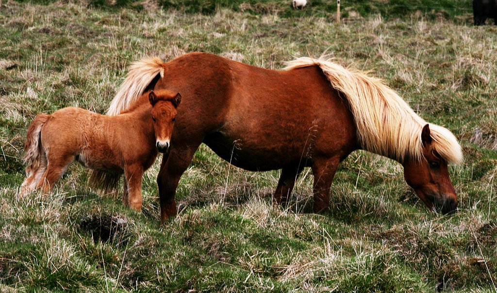 icelandic horses